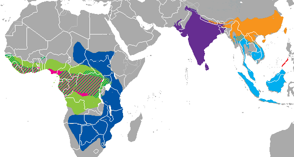 Distribution of the Pangolins derived from constituent species maps. Manis crassicaudata - violet Manis pentadactyla - orange Manis javanica - cyan Manis culionensis - red Phataginus tricuspis - yellow green [1] Phataginus tetradactyla - magenta [2] Smutsia gigantea - green [3] Smutsia temmenicki - blue [4]